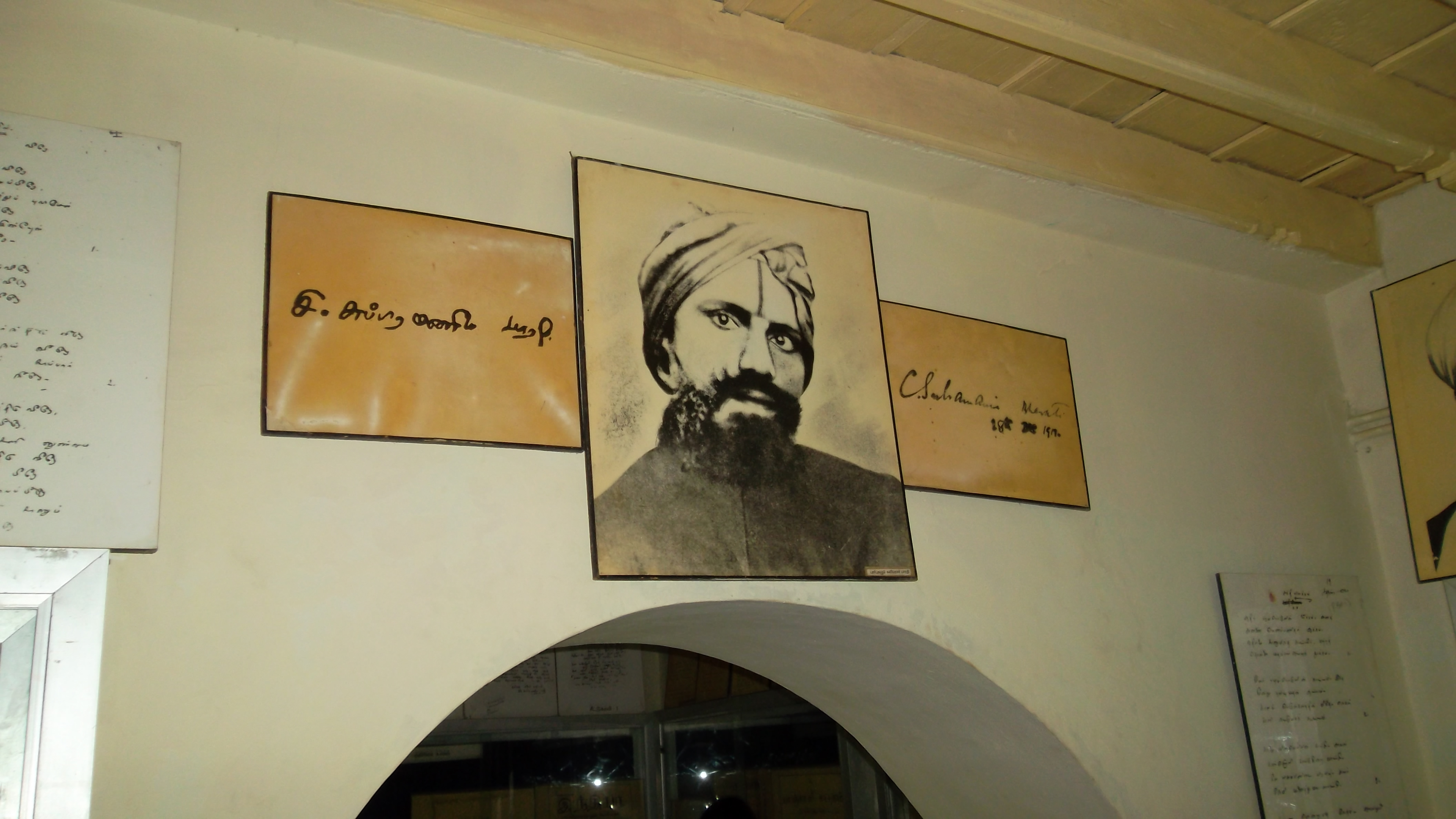 Subramanya Bharathi (1882 - 1921). Indian freedom fighter, journalist, writer, poet.